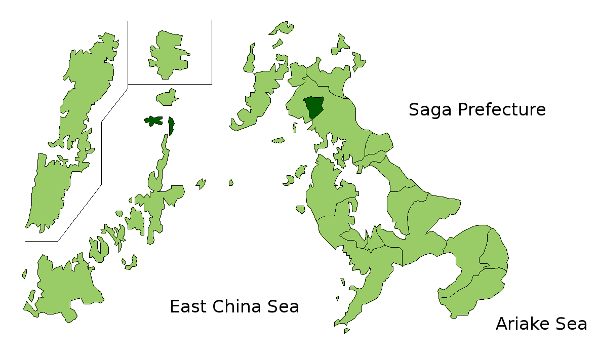 The location of Kitamatsuura_District in Nagasaki Prefectuur, Japan